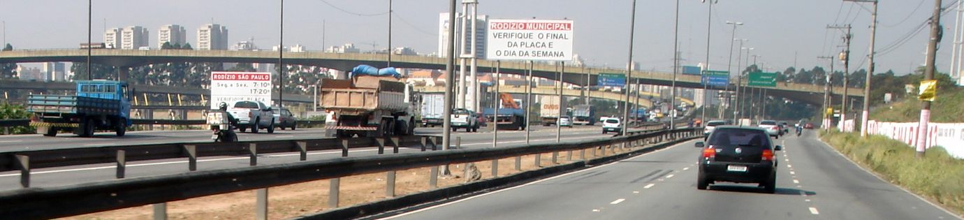 Traffic signs at the entrance of Marginal Pinheiros and Marginal Tietê, marking the begining of to the vehicle restriction zone based on the last digit of the license plate number, São Paulo, Brazil